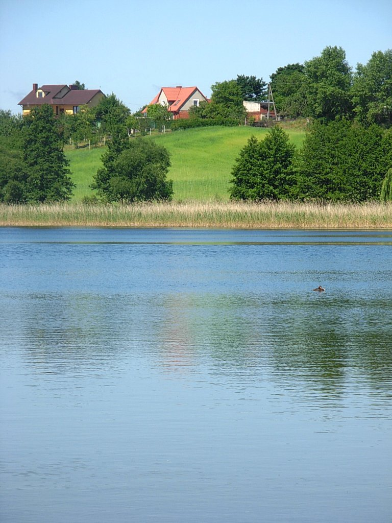 Wierzchucińskie Duże Lake